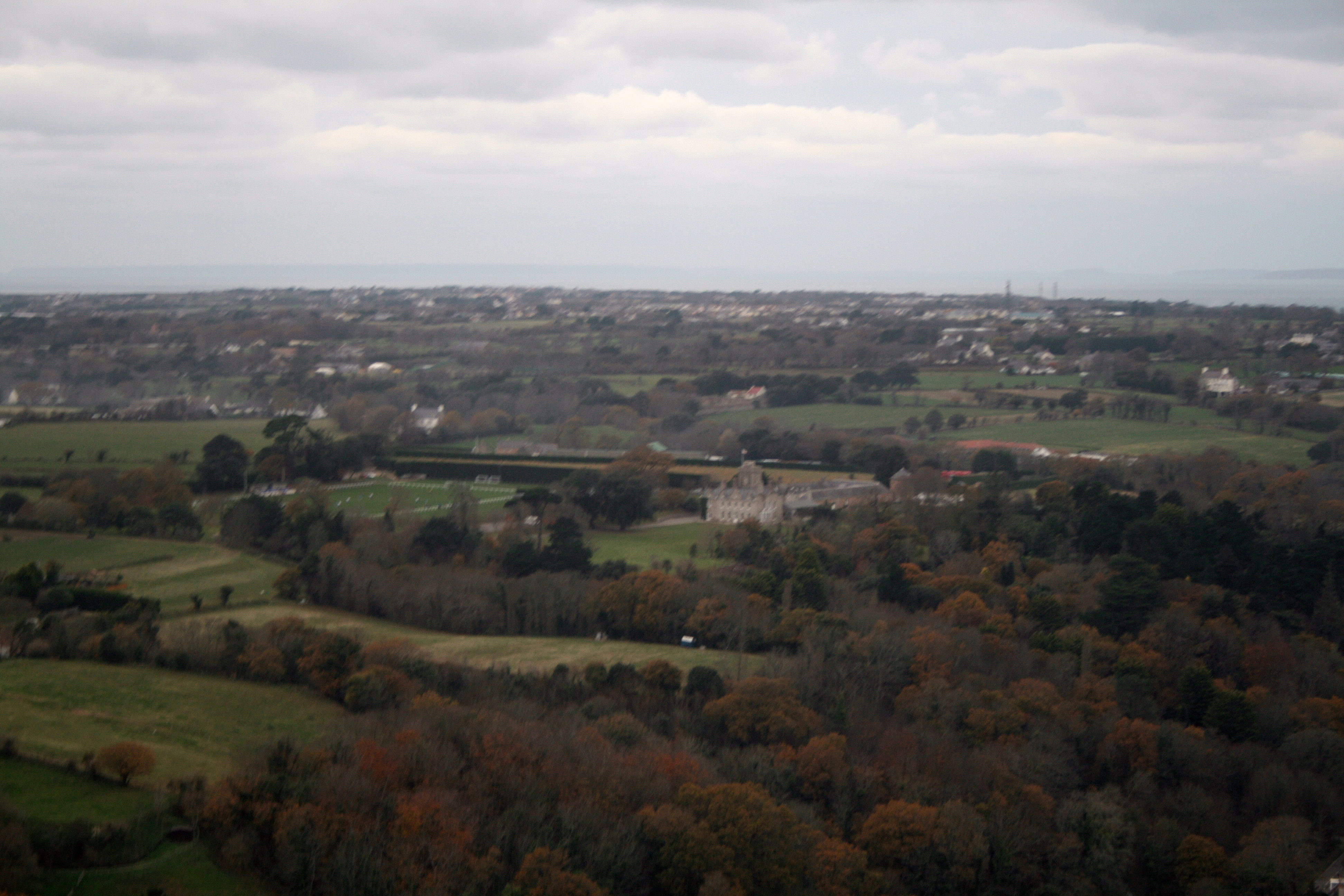 Aerial view of La Hague Manor (St. George's School)